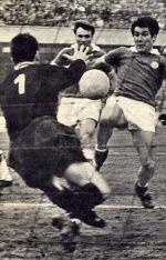 en: Omar Sivori, attacker of S.S.C. Napoli it: Omar Sivori, attaccante della S.S.C. Napoli